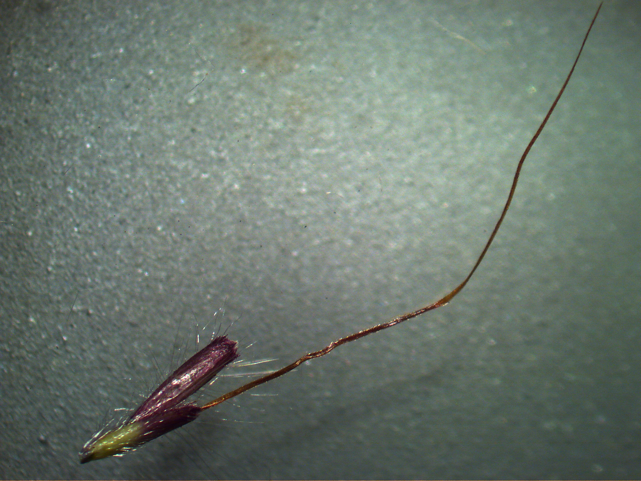 Dichanthium annulatum spikelet from Summer Island, New South Wales, AU